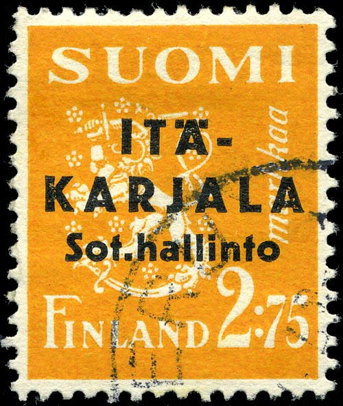 Stamp of Karelia, Finnish occupation overprint on a stamp of Finland, 1941, 2.75 markka